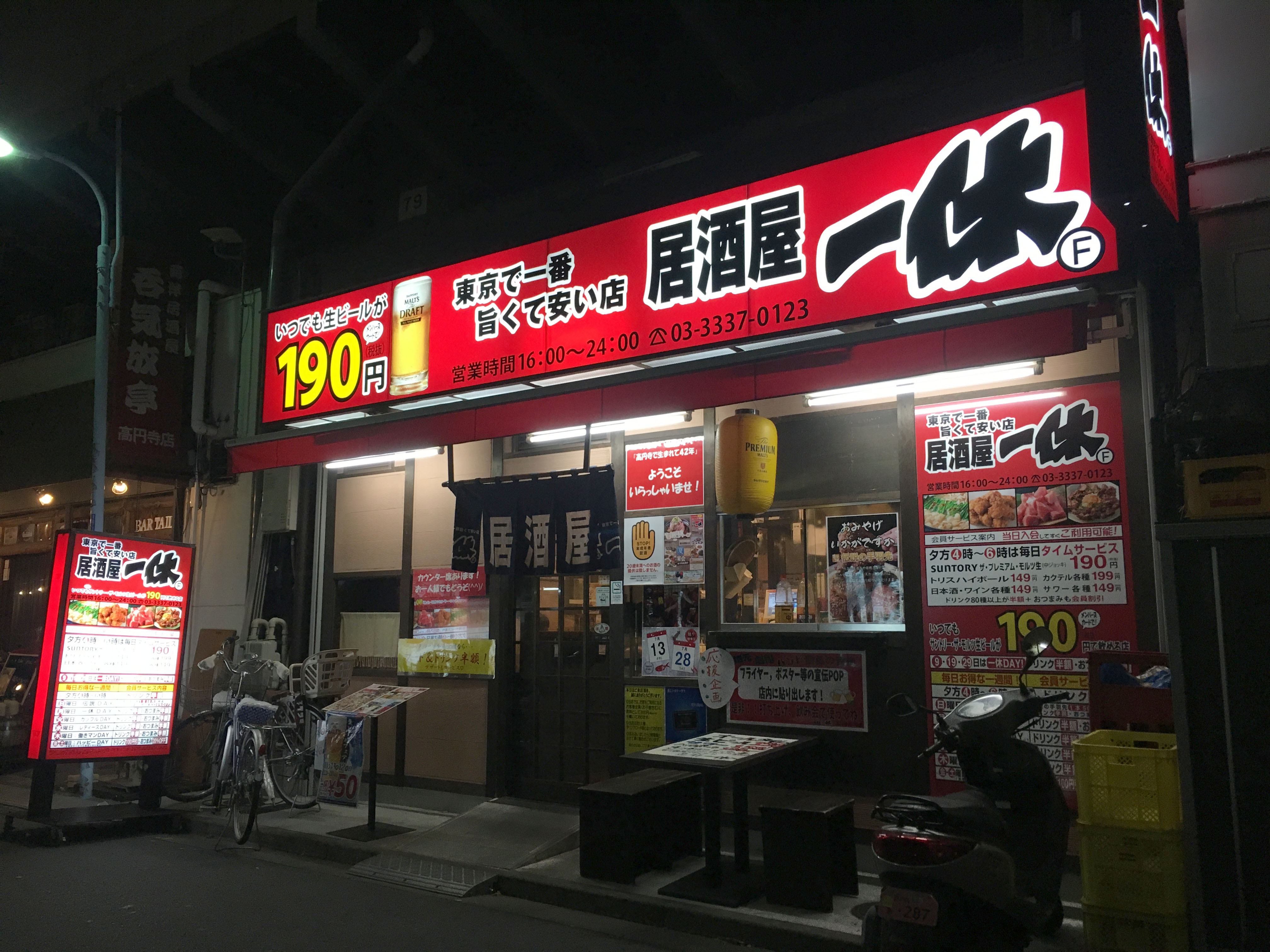 Izakaya Ikkyu (Japanese bar chain) Koenji branch (Tokyo, Japan)